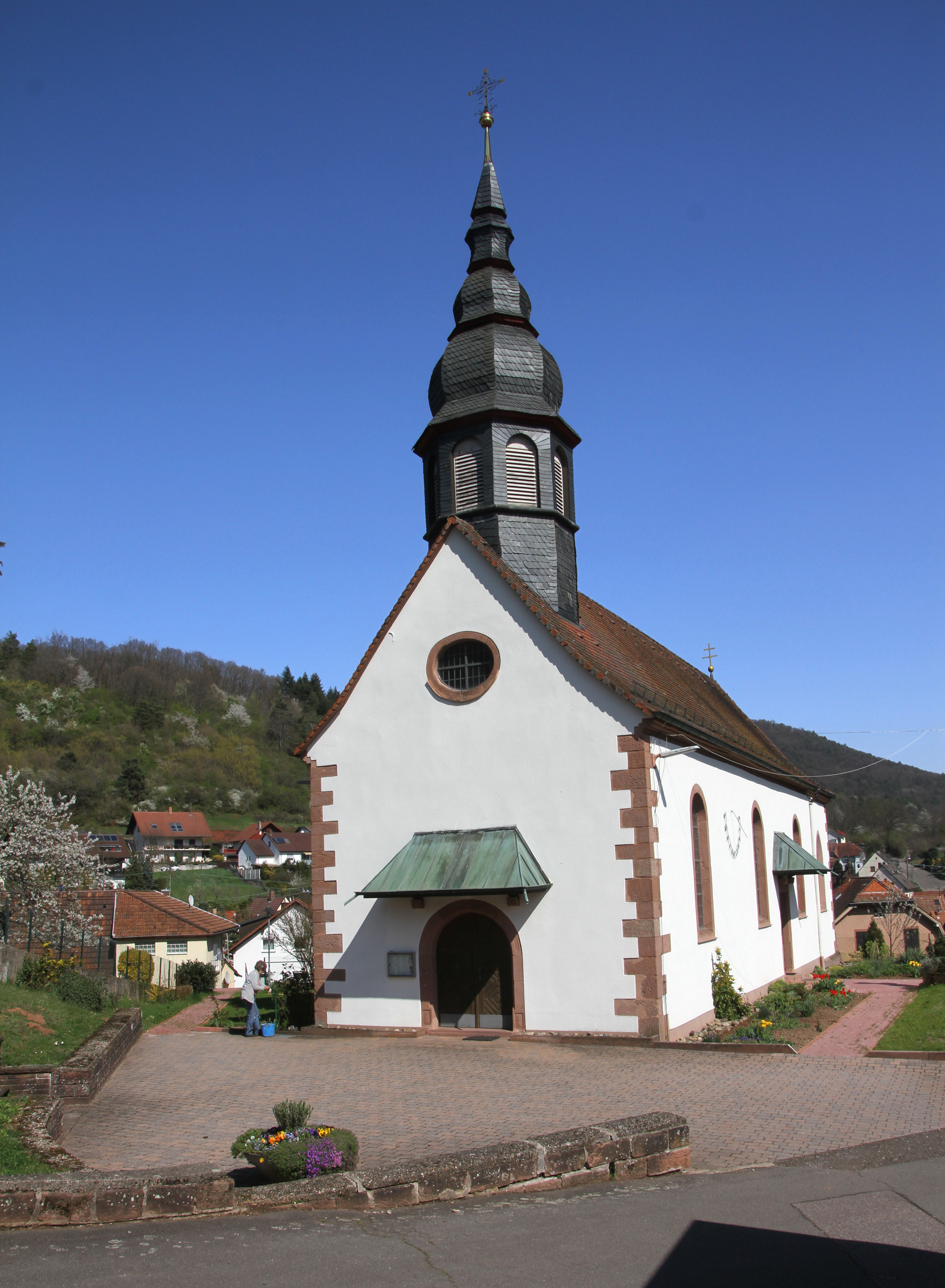 Church of Saint Wendelin in Waldhambach.